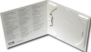 A digipak with paper tray made from recycled sugarcane